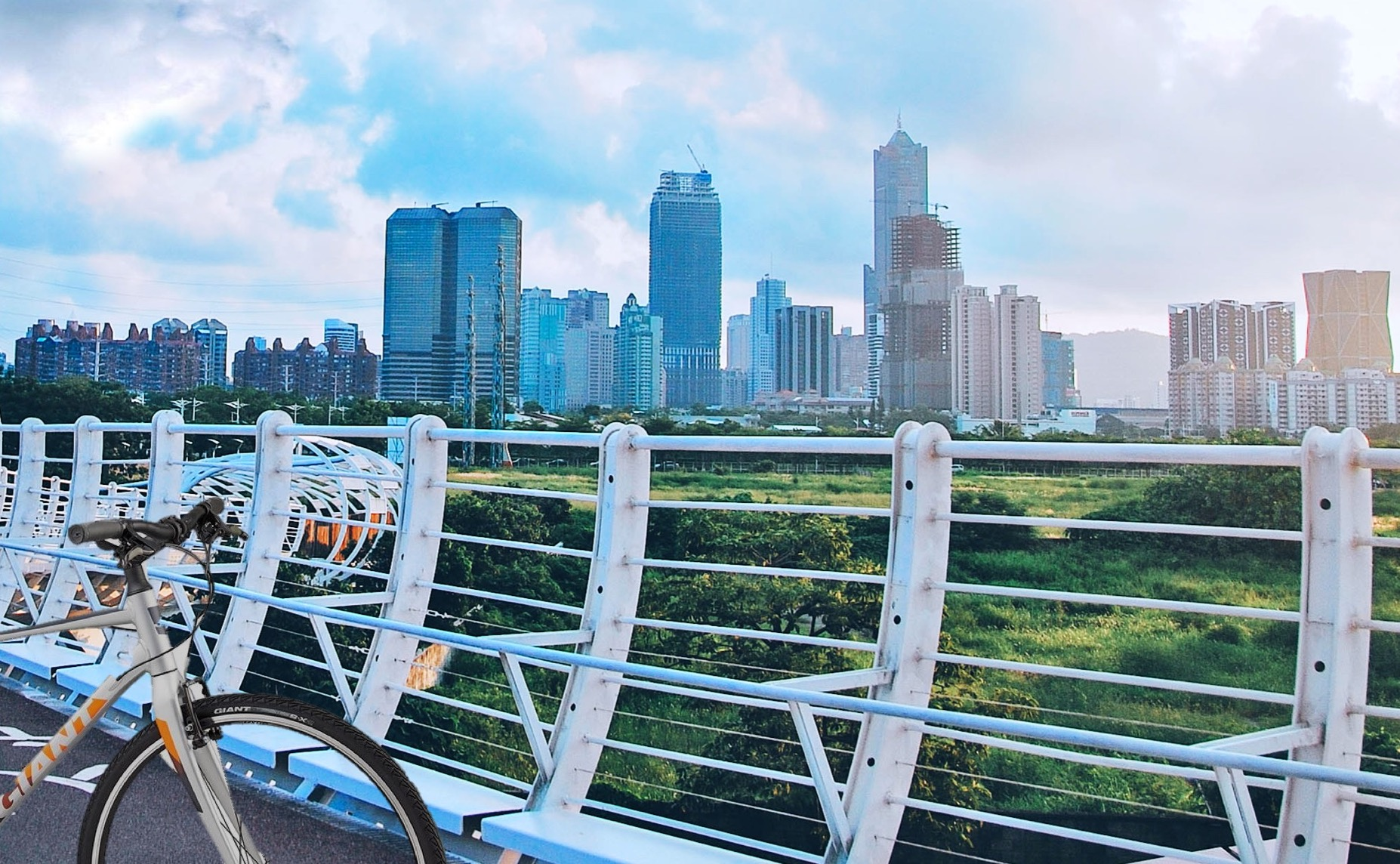 Skyline of Cianjhen District, Kaohsiung, Taiwan where the two tallest buildings are the 85 Sky Tower (378m) and Farglory THE ONE (268m), which was still under construction